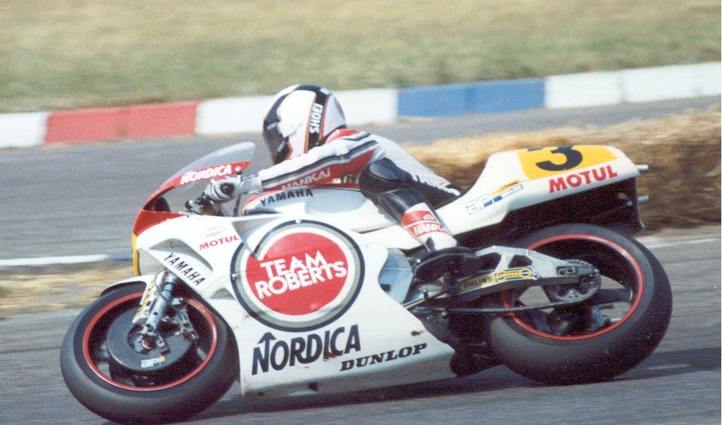 Photo by Gary Watson, Hockenheim 1989